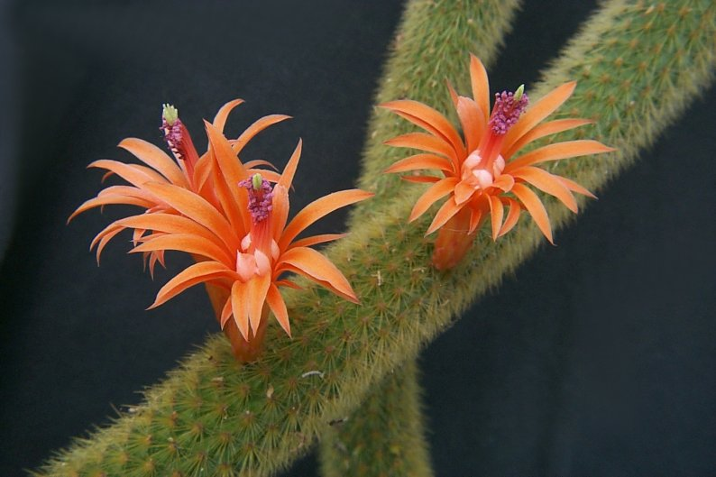 Cleistocactus winteri